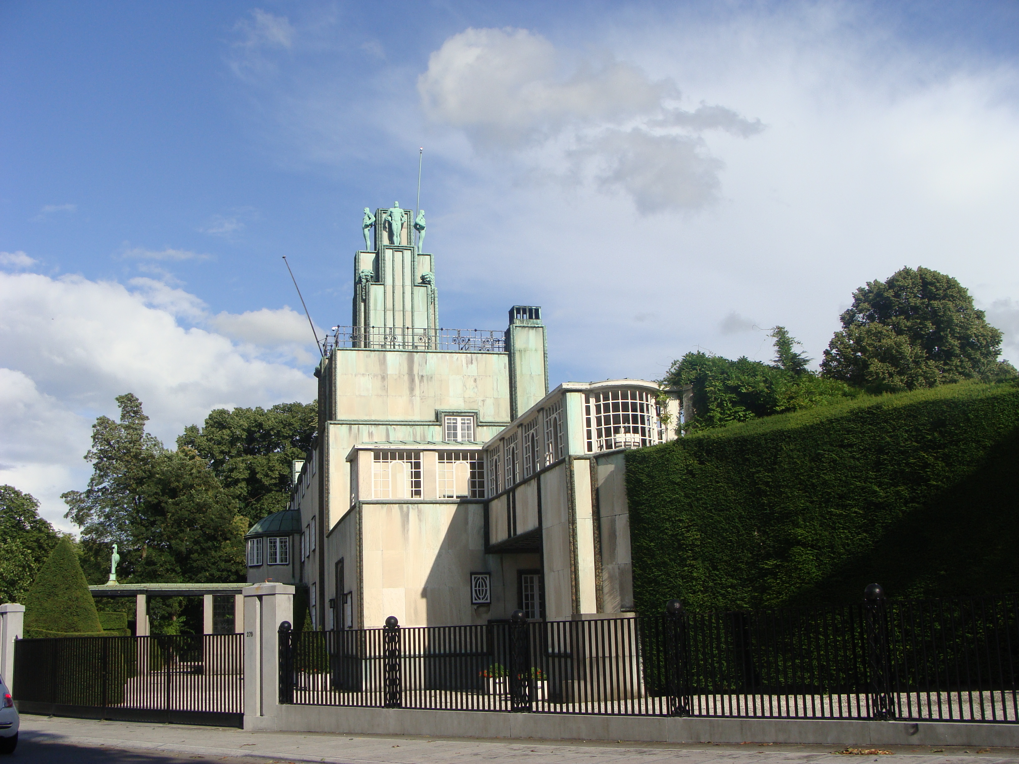 Josef Hoffmann, Palais Stoclet, Bruxelles